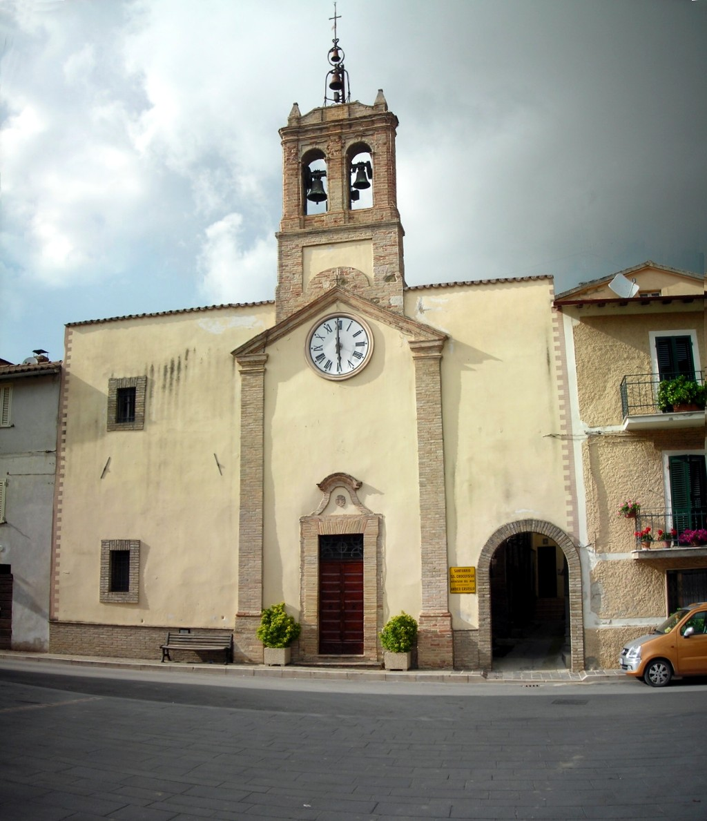 Castle of Costano, Bastia Umbra, Perugia, Umbria, Italy